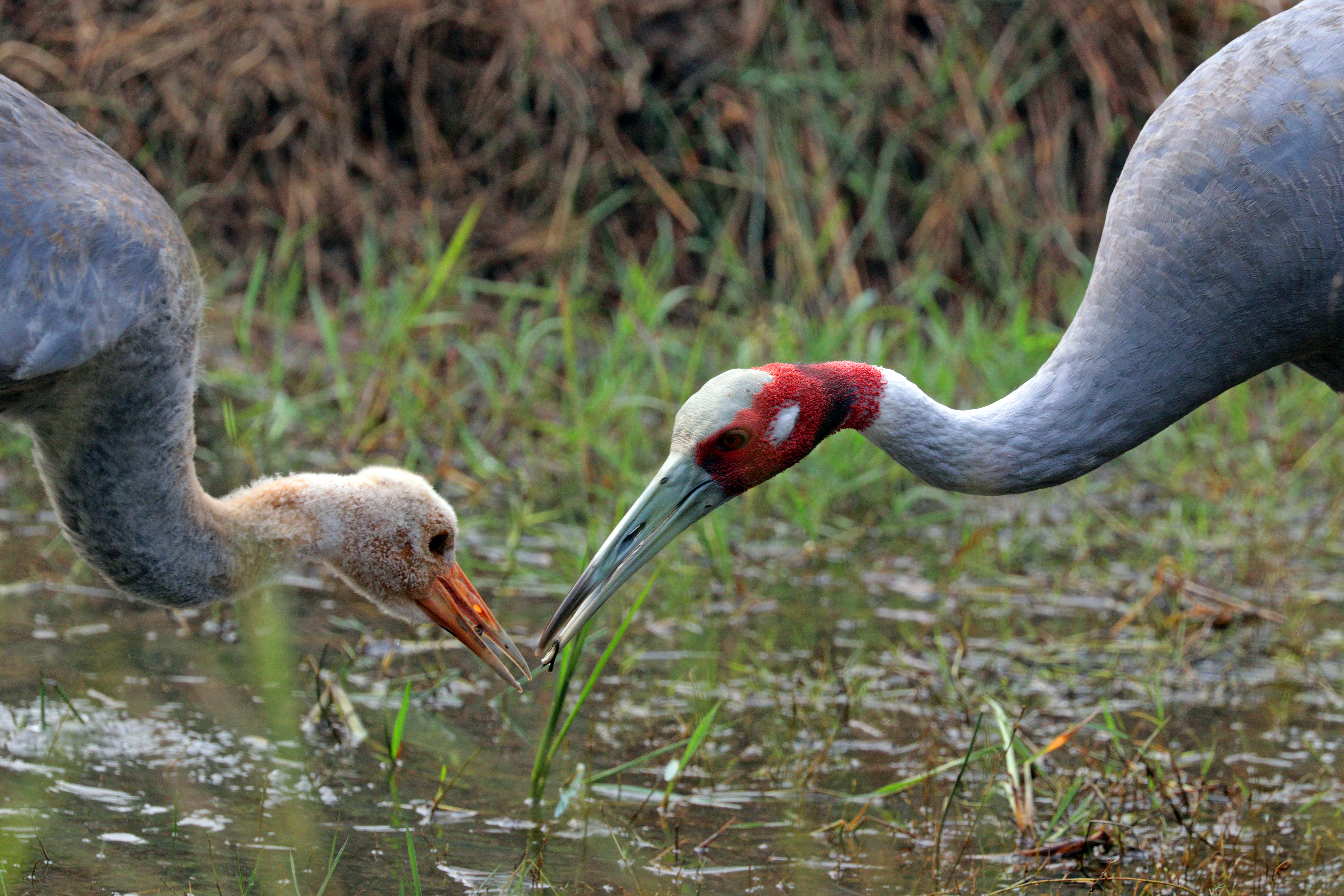 Sarus crane (Grus antigone antigone) feeding juvenile, Lumbini, Nepal